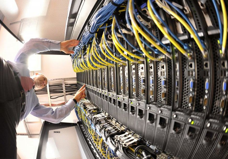 Image of the Arctur-1 HPC